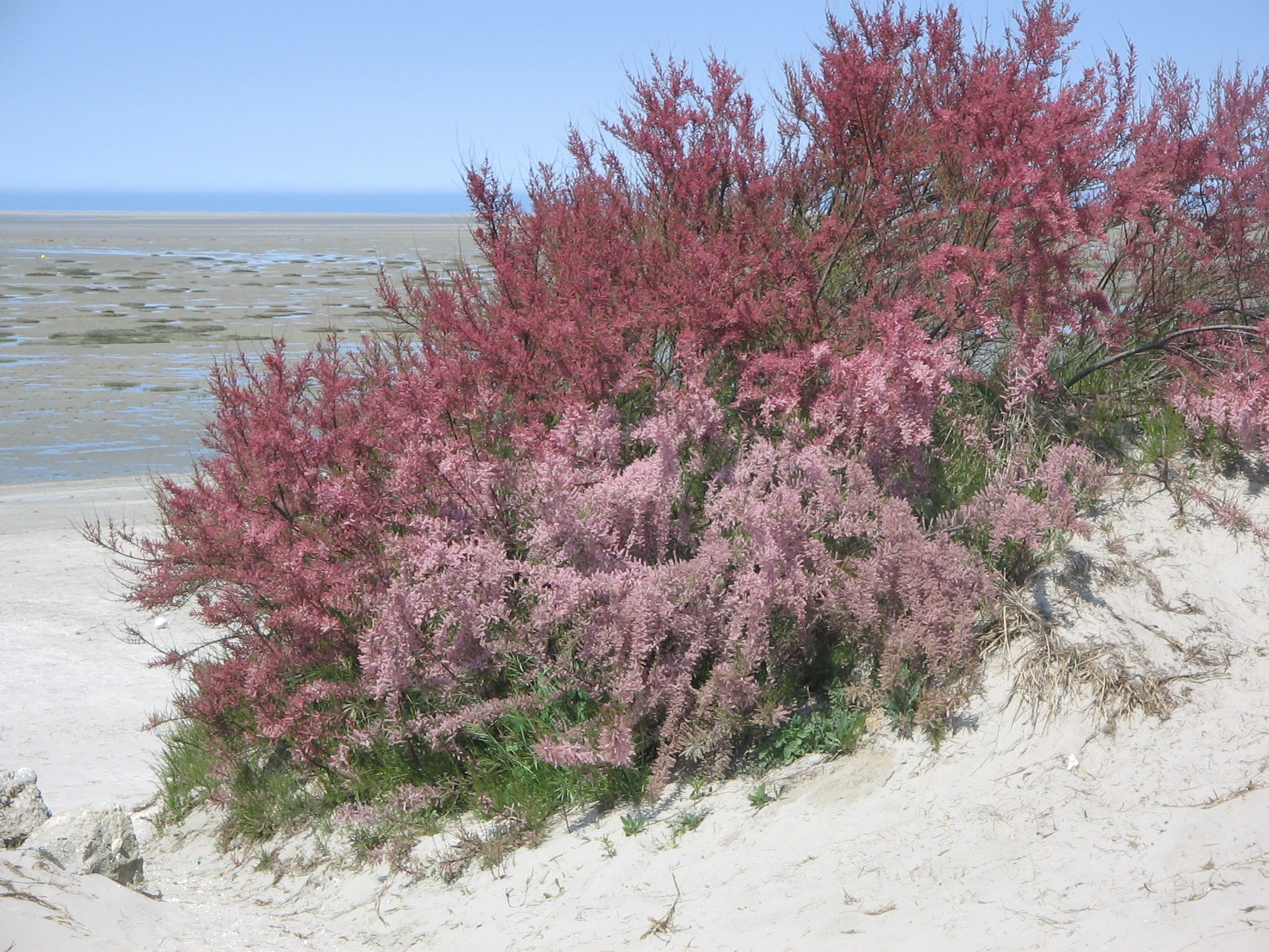 Tamarix gallica